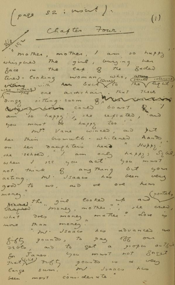 Book illustration